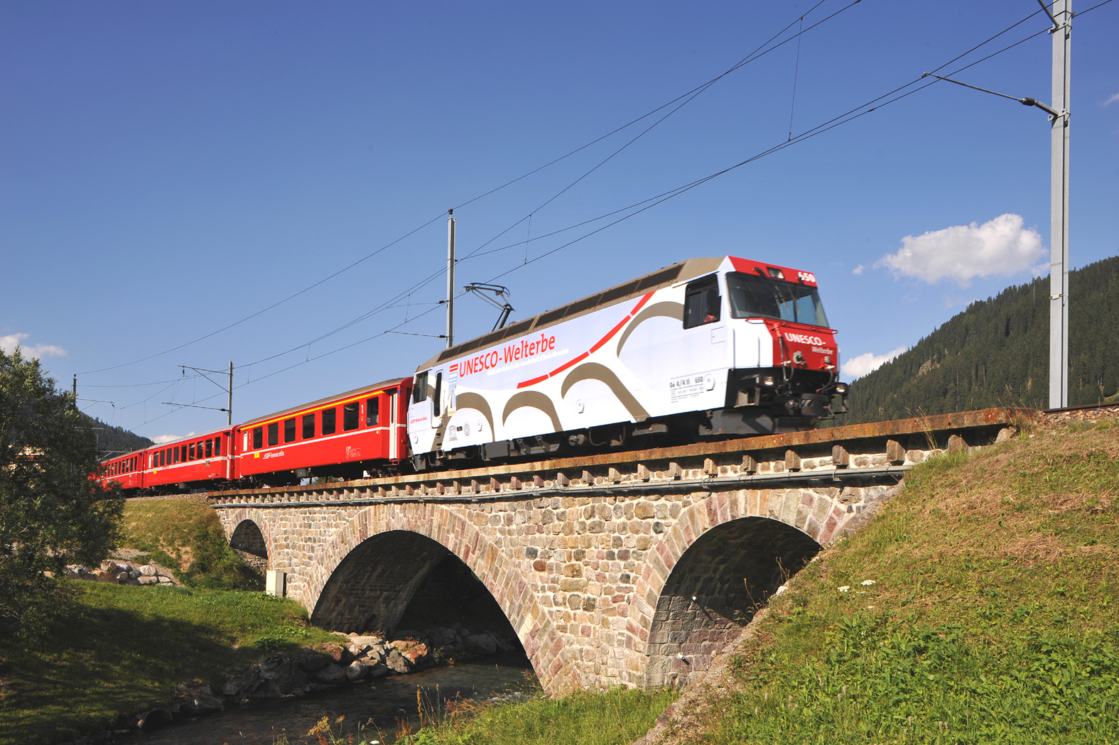 RhB train with locomotive 650 (Ge 4/4 III) «UNESCO-Welterbe» on the Landwasser bridge west of Davos direction Frauenkirch; Graubünden, Switzerland.